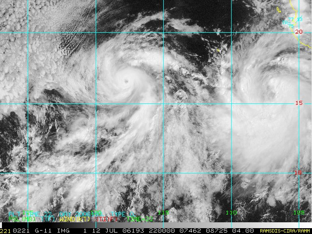 The hurricanes Bud and Carlotta on July 12, 2006.